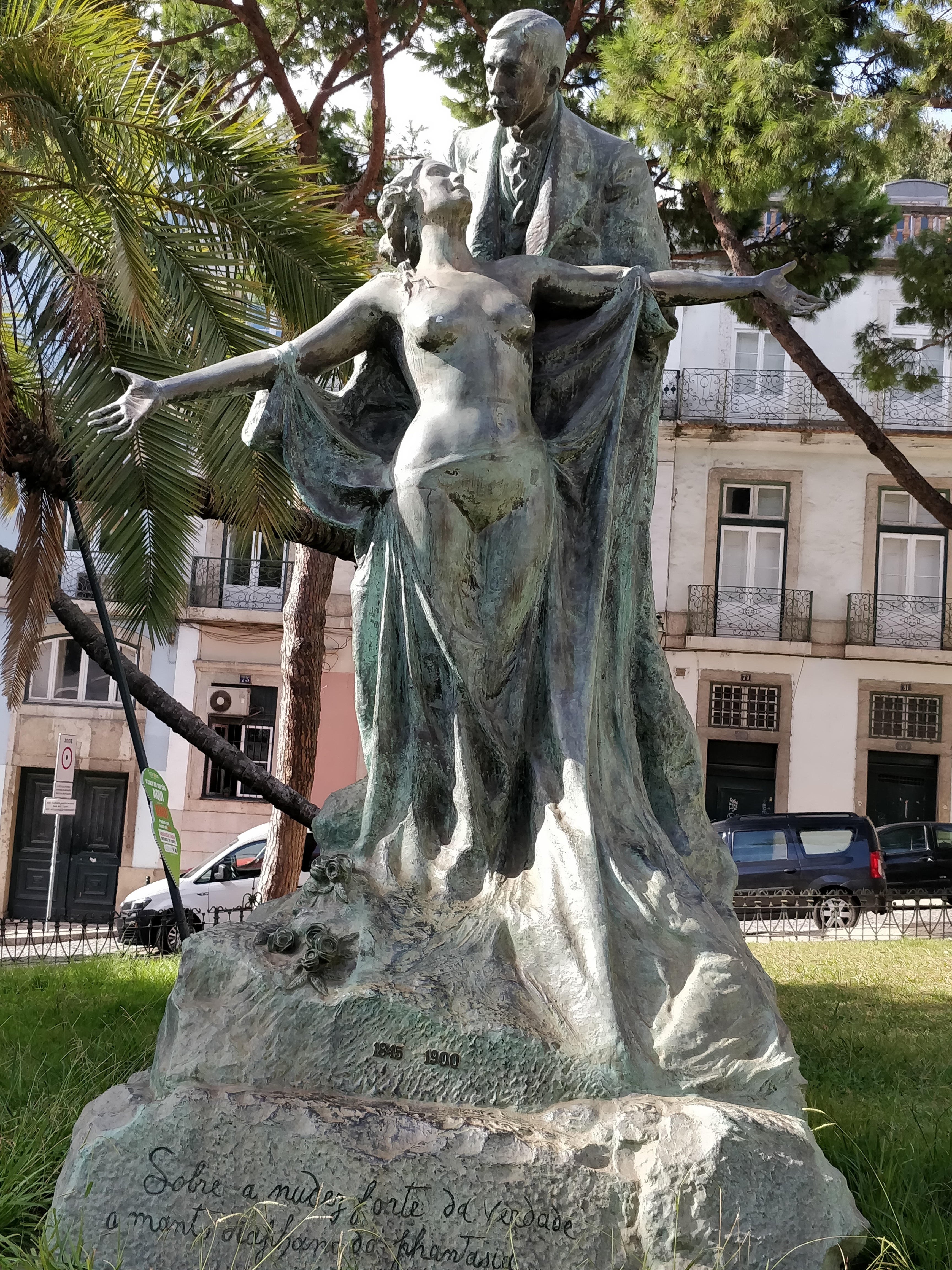 Statue of the Portuguese writer Eca de Queiroz on Rua do Alecrim in Lisbon